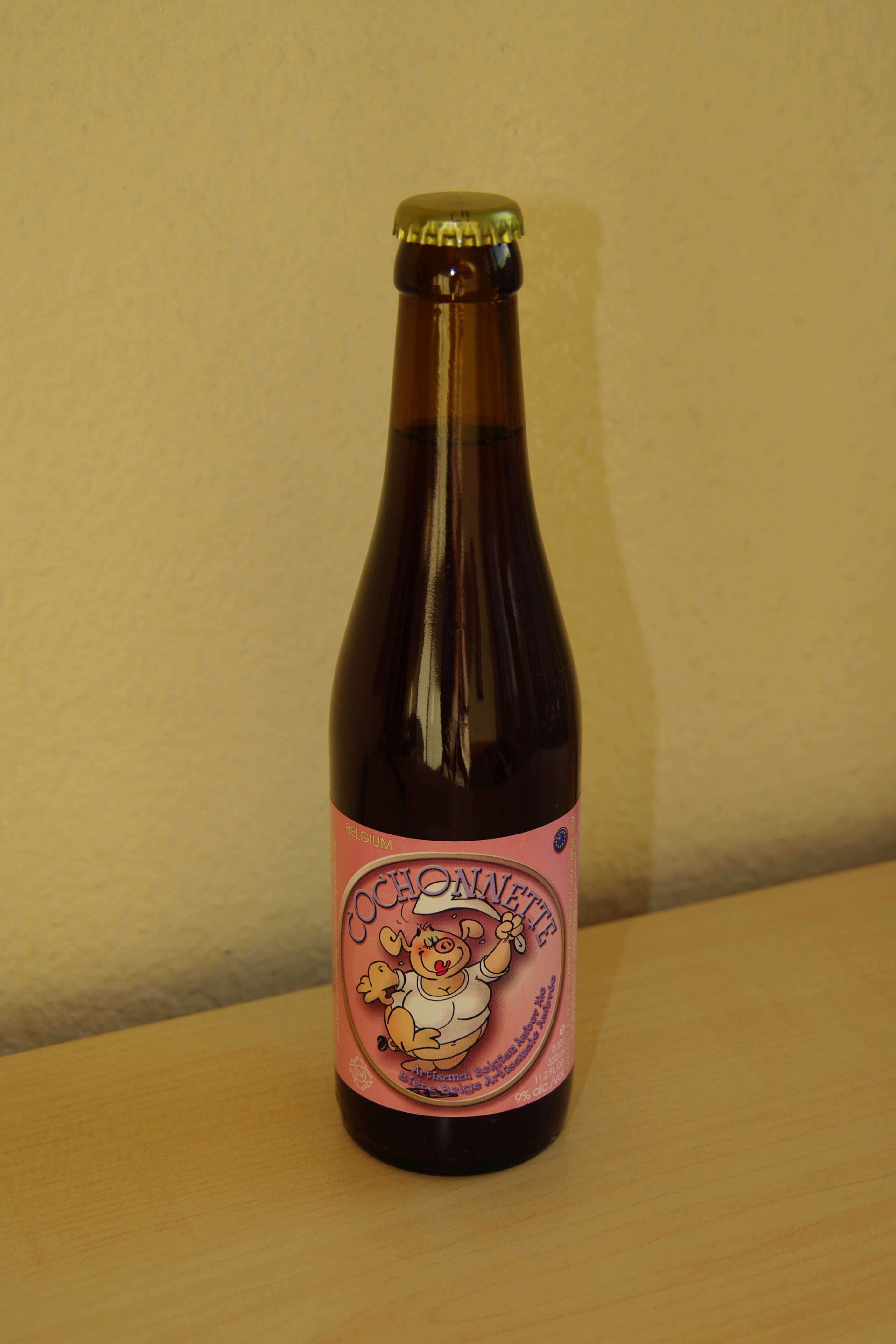 Vapeur cochonnette beer